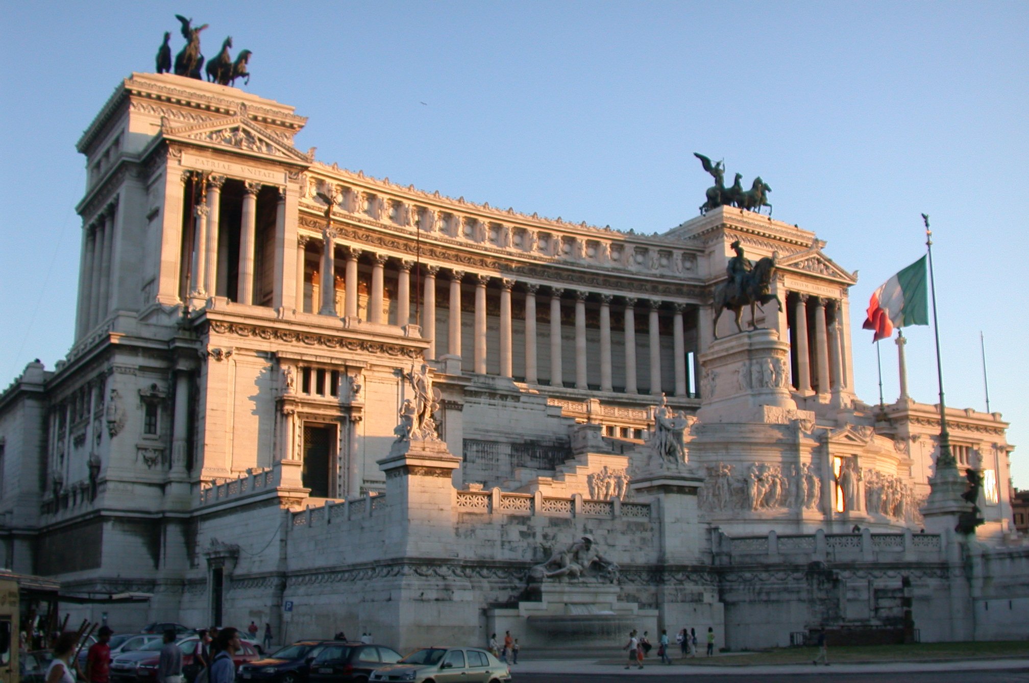 Monument of Vittorio Emanuele II in Rome, commemorating the Italian unification and Victor Emmanuel II., first king of the Kingdom of Italy. Taken in August 2005 by User:MM.